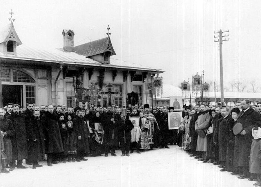 Tsarskoye Selo (Russia), Group members of the temperance movement, the participants of the procession in front of the Tsarskoe Selo railway station.